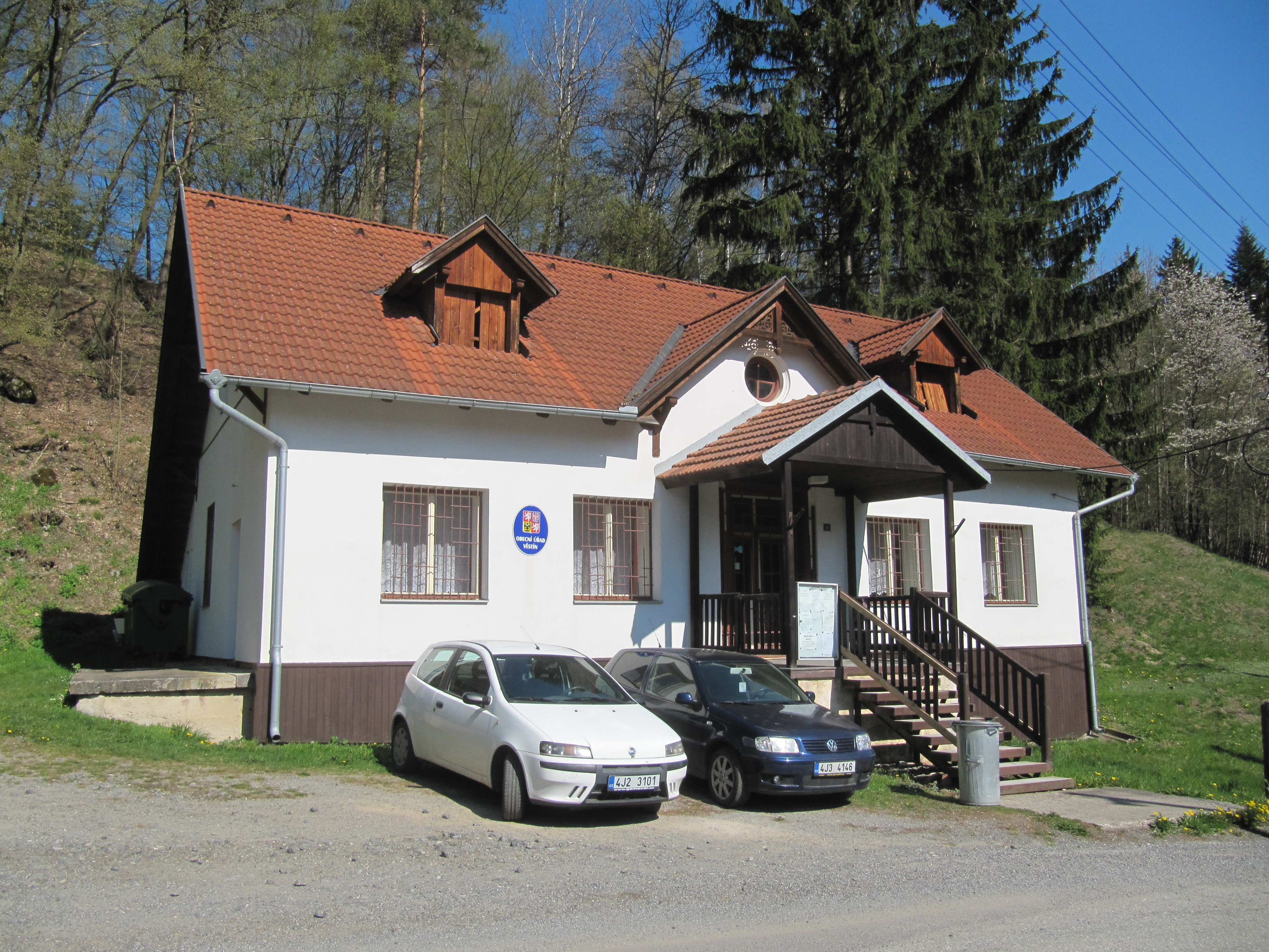 Věstín, Žďár nad Sázavou District, Czechia.